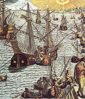 Harbour scene, depicting Portuguese ships departing from Lisbon to America.